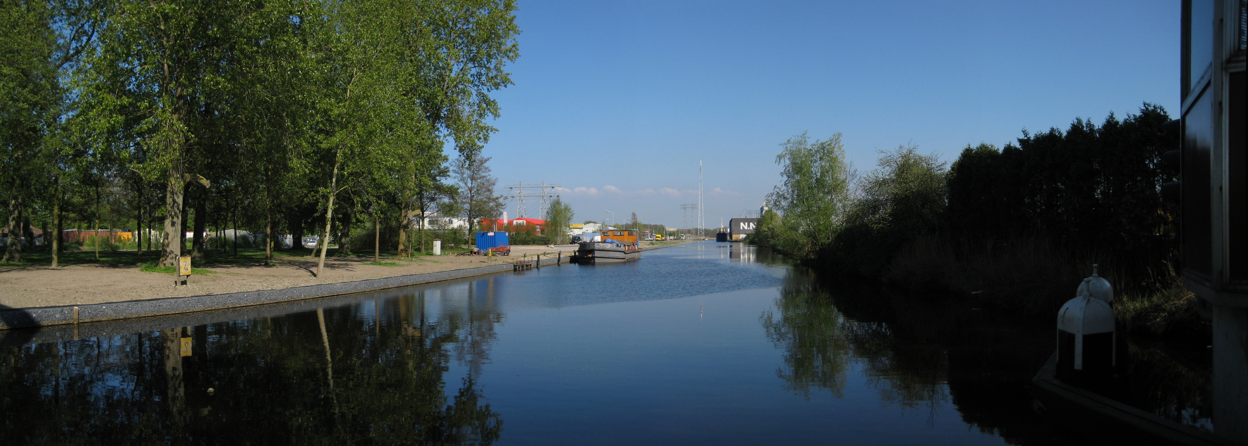 The Oude Winschoterdiep, a canal in the Dutch city of Groningen, seen from the north.